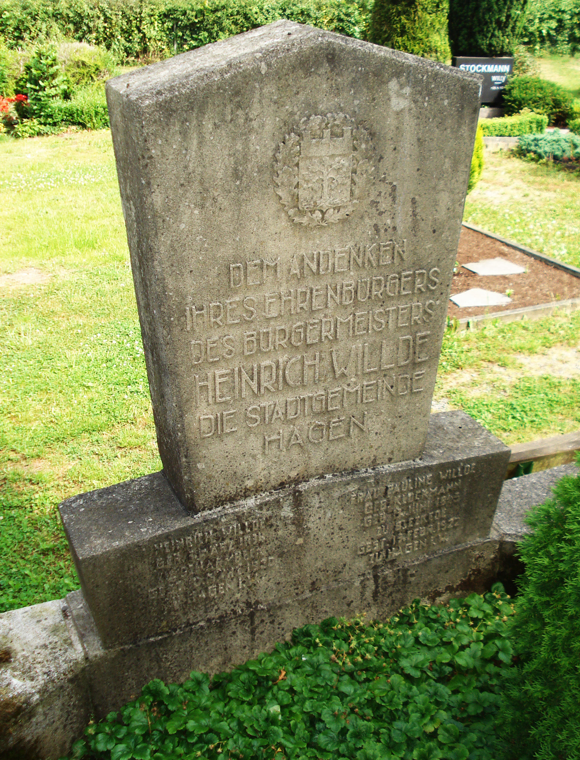 Heinrich Willde (Germany) - tombstone at Hagen churchyard